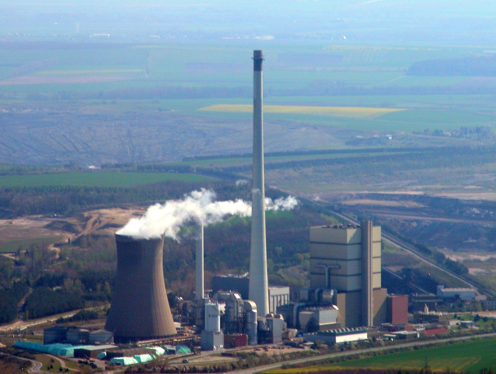 Aerial photograph of Buschhaus Power Station in Germany.